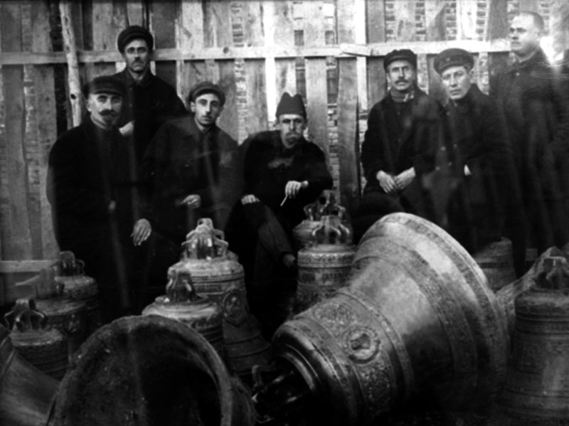 Tha activists of atheistic organization in church at Tbilisi